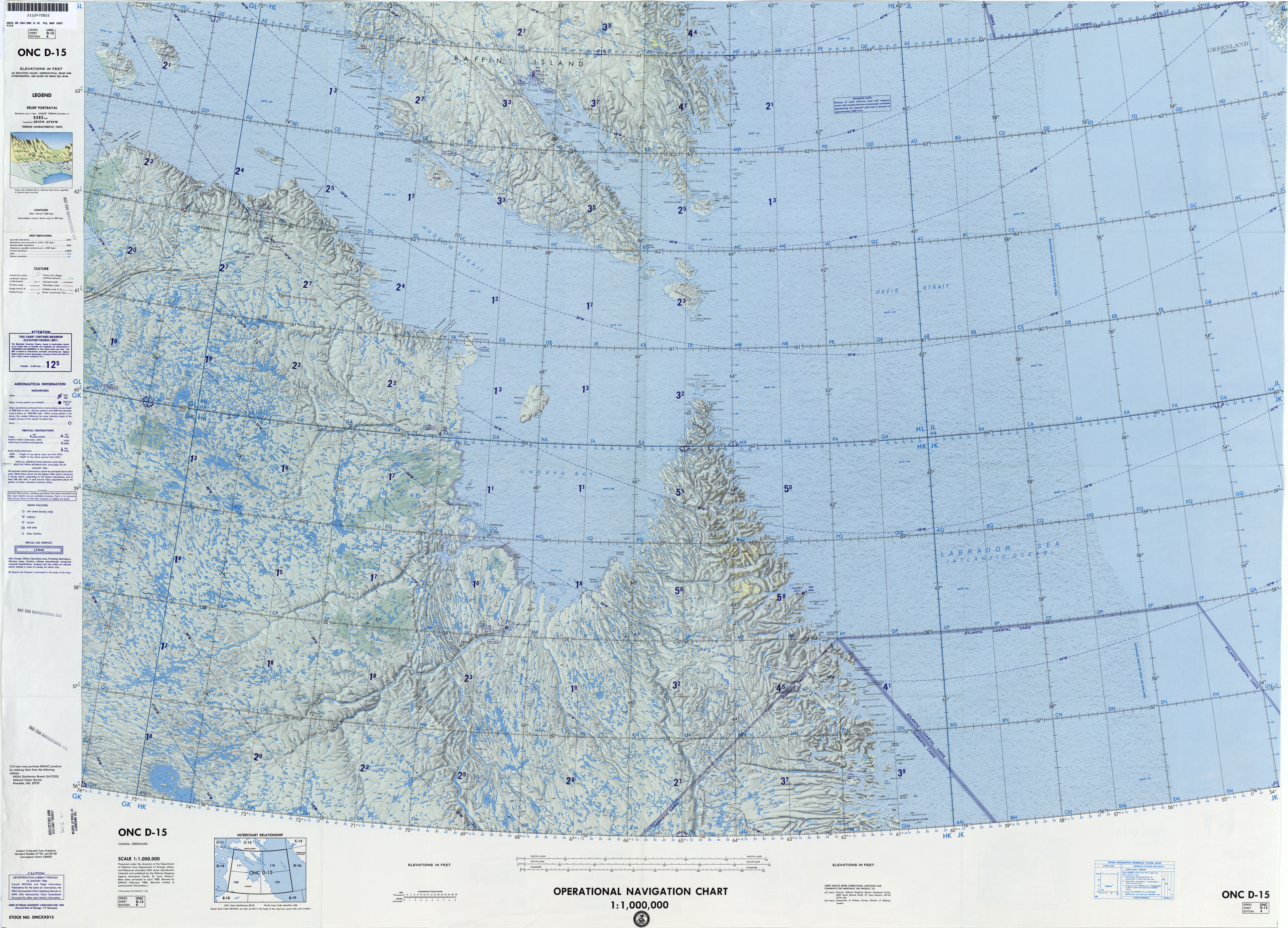 1:1,000,000 scale Operational Navigation Chart, Sheet D-15, 4th edition. Covers Canada, Greenland. Lambert Conformal Conic Projection. Standard Parallels 57 20N and 62 40N. Center longitude 65E.